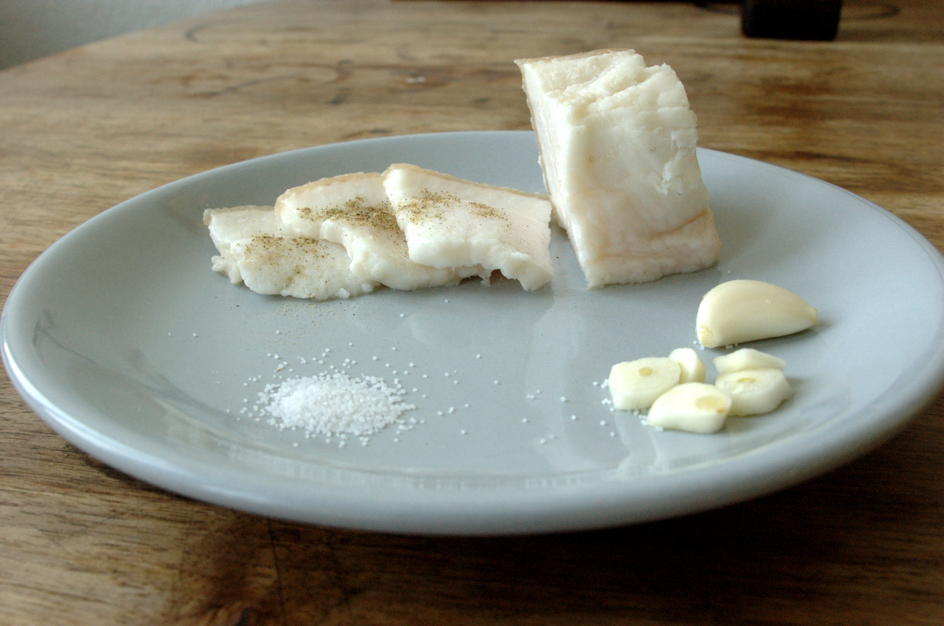 Salo with pepper, salt and garlic